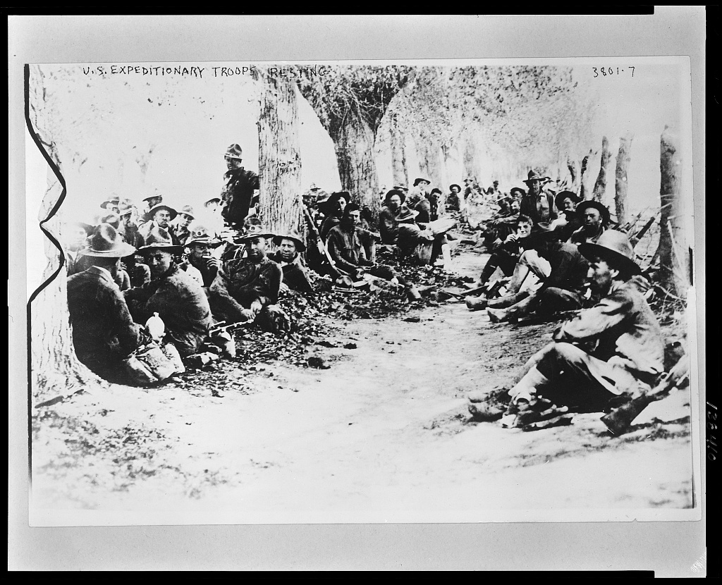 U.S. Army Expeditionary troops of the 16th Inf. resting in Colonia Díaz. Mexico, April 1, 1916. Photograph shows infantry troops sitting on the ground resting in a forest like area. Some troops are eating rations or smoking.